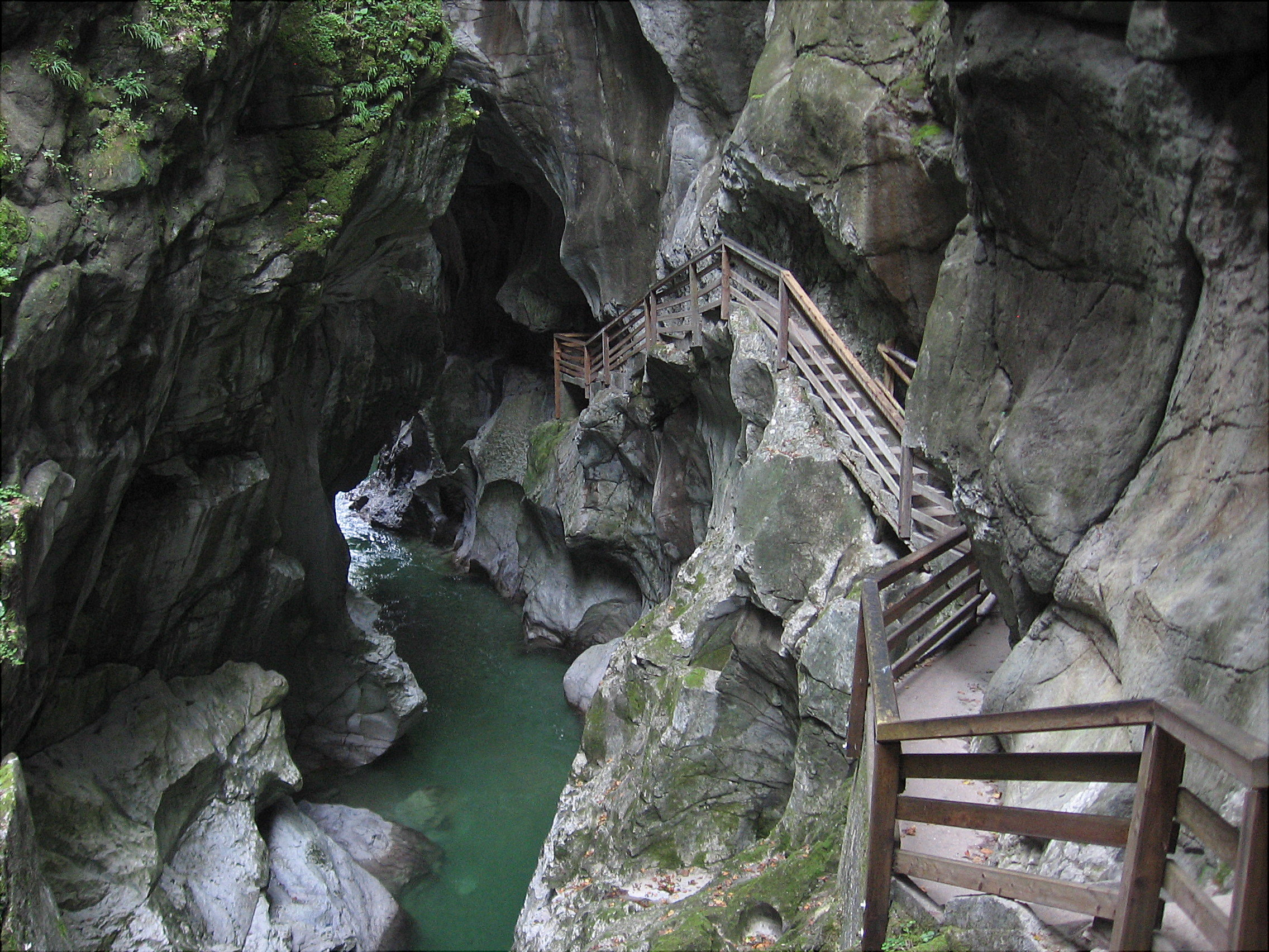 Lammeröfen This media shows the natural monument in Salzburg with the ID NDM00143.